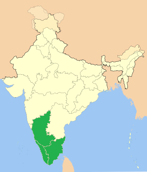 Coffee growing areas of India